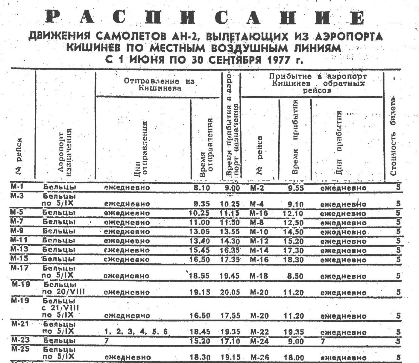 Extract of timetable of flights from Chisinau to Balti on An-2 on domestic flights from 1 June to 30 September 1977